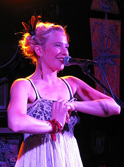 Sharon Little performing at The Saint, Asbury Park, NJ, June 2011, smiling.